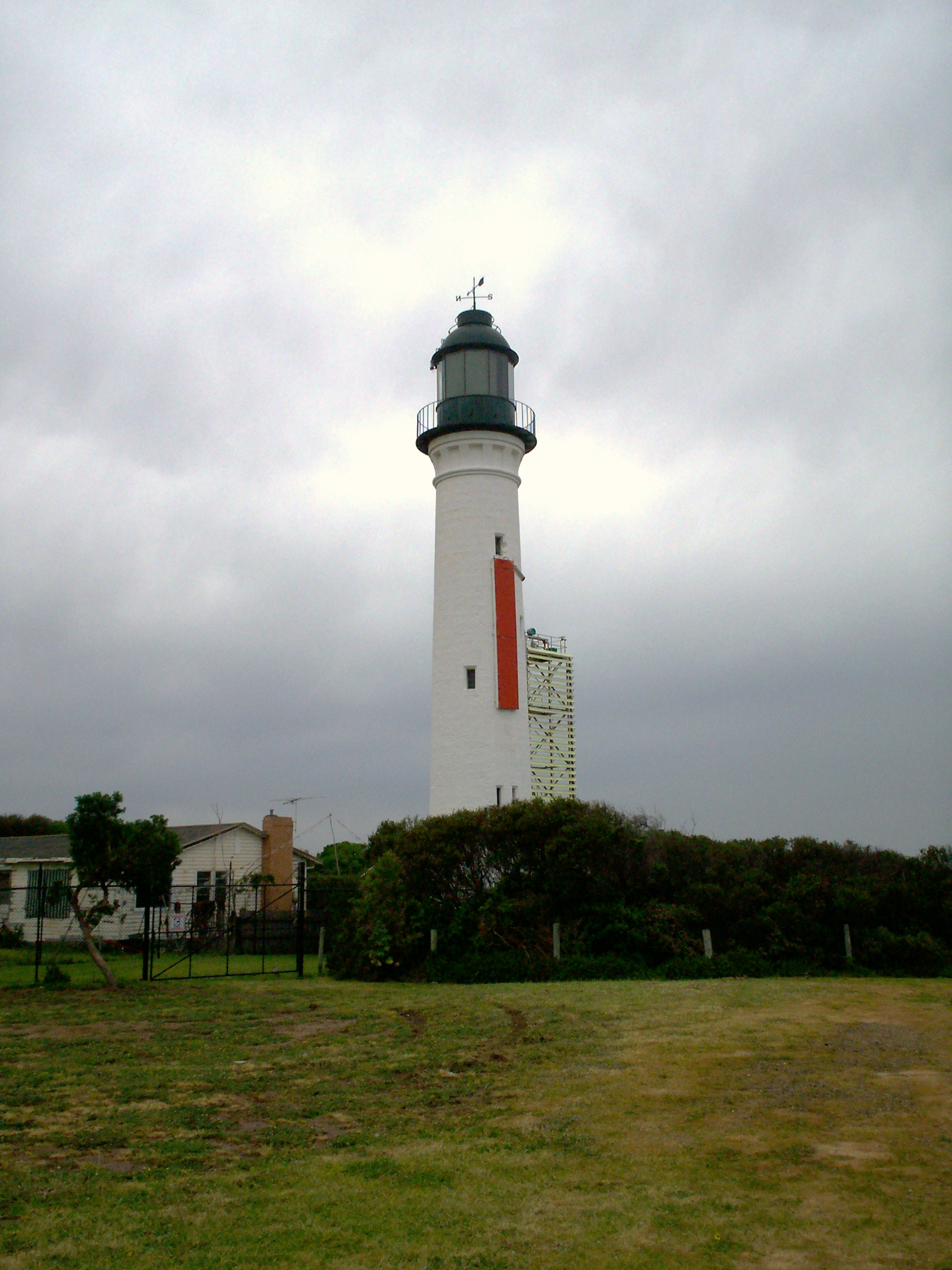 Taken by User:Michaelbeckham - 26/9/07